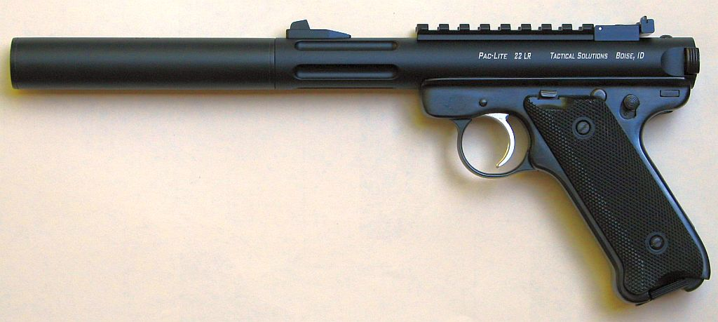 Ruger MK II pistol (.22 LR) with Tactical Solutions barrel/receiver and Tactical Innovations Quest suppressor.